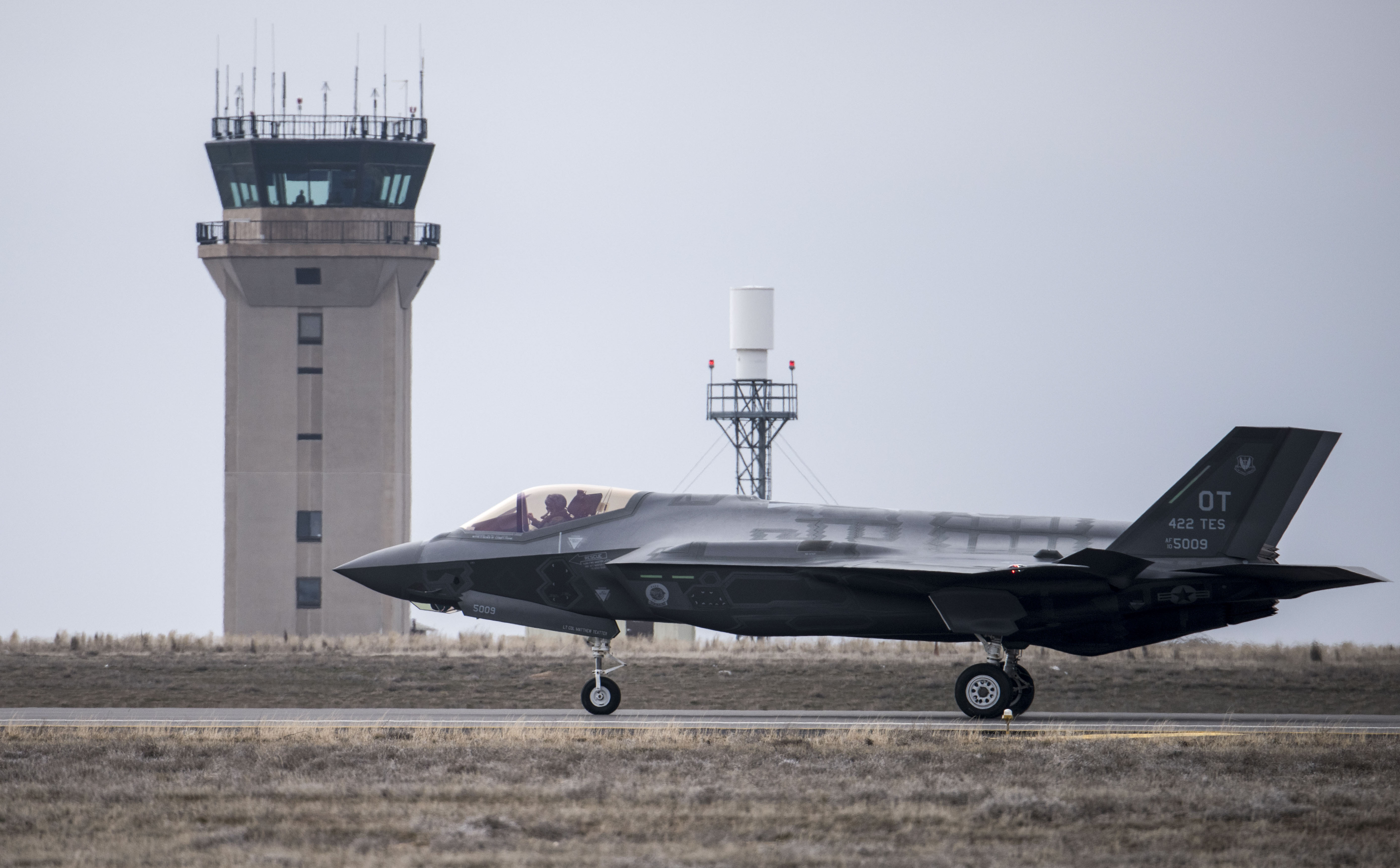 A U.S. Air Force F-35A Lightning II, also known as Joint Strike Fighter, taxis after landing at Mountain Home Air Force Base, Idaho, Feb. 8, 2016. The F-35, visiting from Edwards Air Force Base, Calif., will be part of an initial operating capability test at the nearby range complex. (U.S. Air Force photo by Senior Airman Jeremy L. Mosier/Released) Unit: 366th Fighter Wing